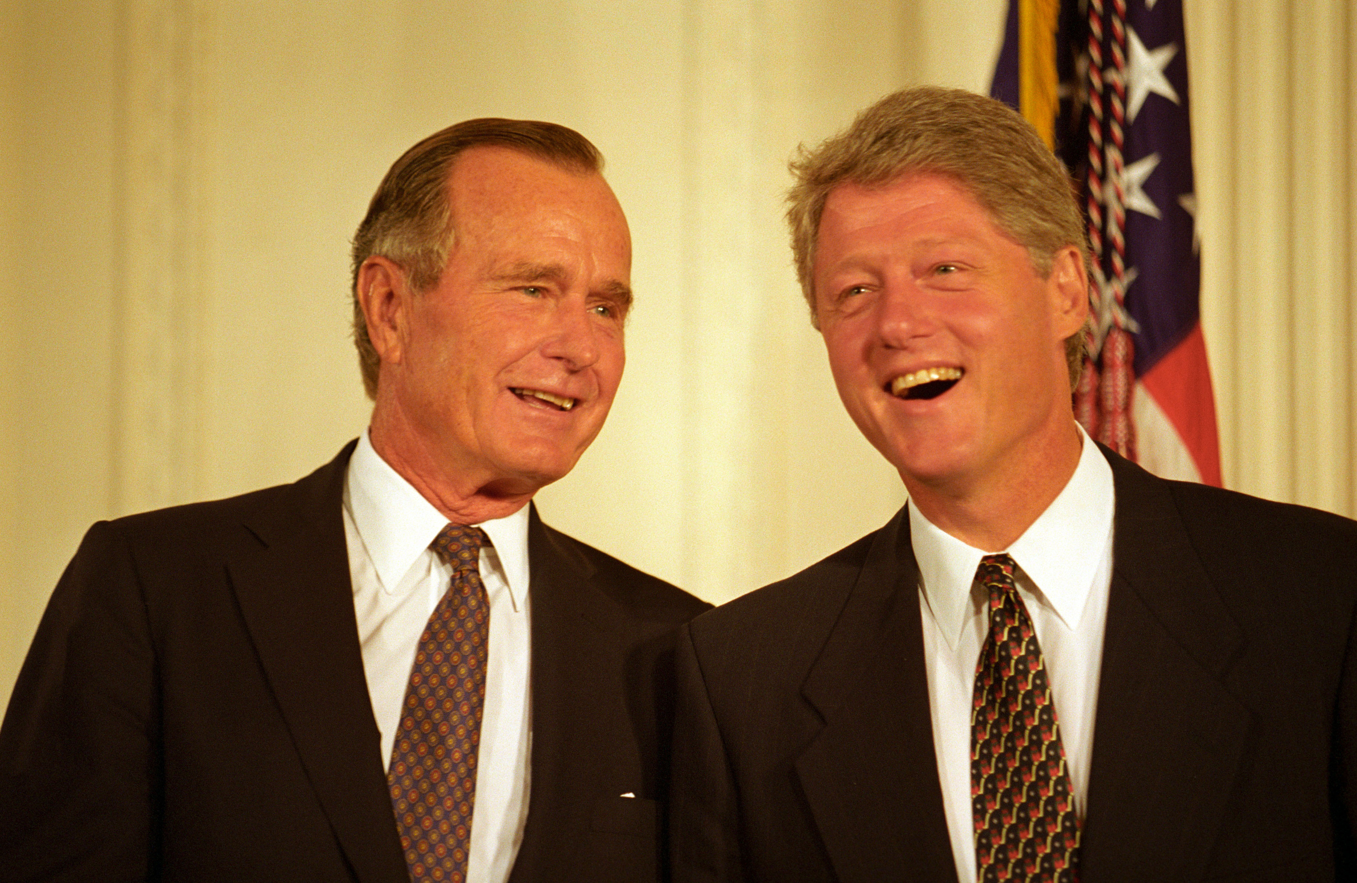 President Clinton and Former President George H.W. Bush together at NAFTA Kickoff